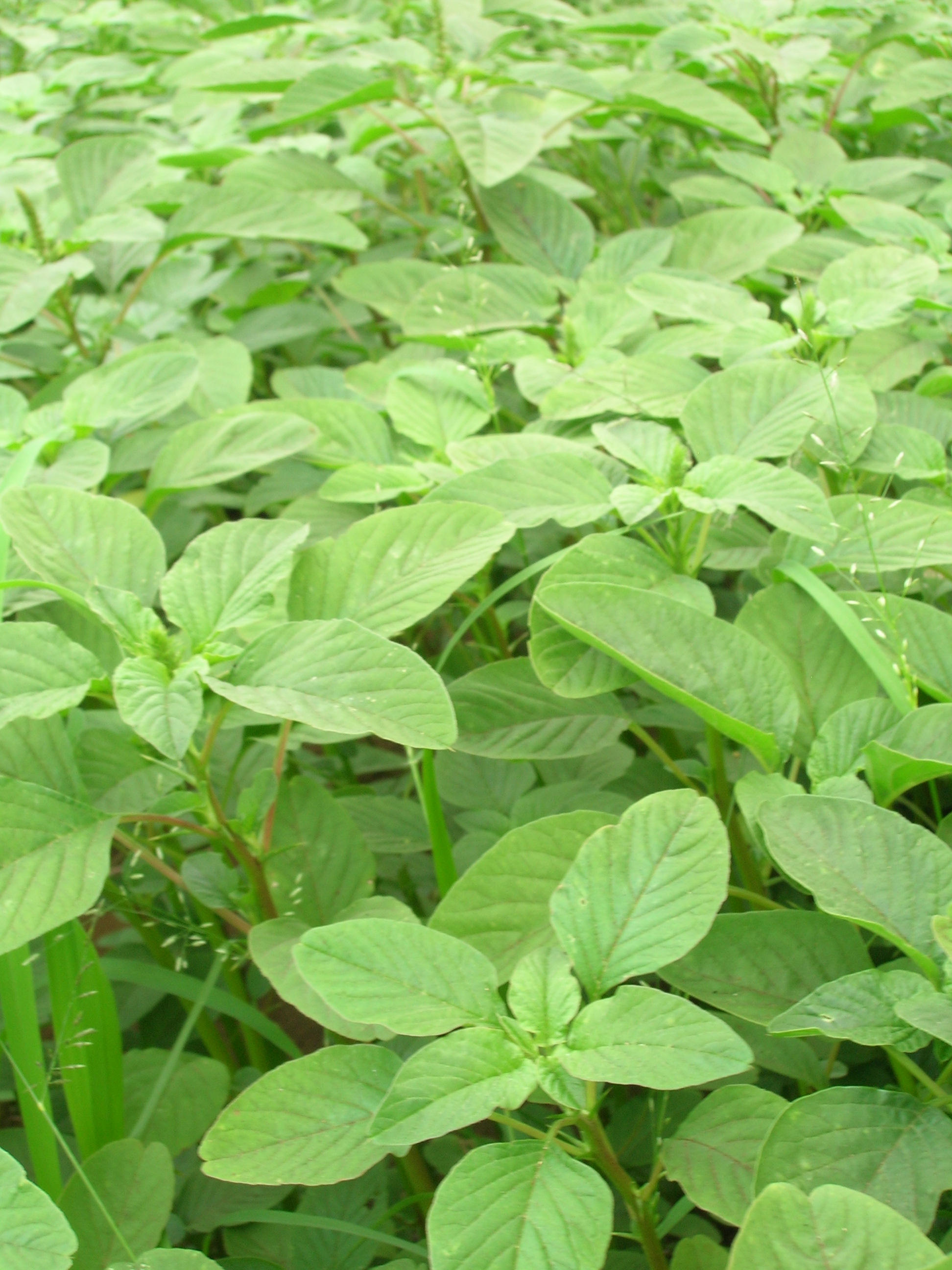 Amaranthus spinosus (habit). Location: Maui, Kahului Airport